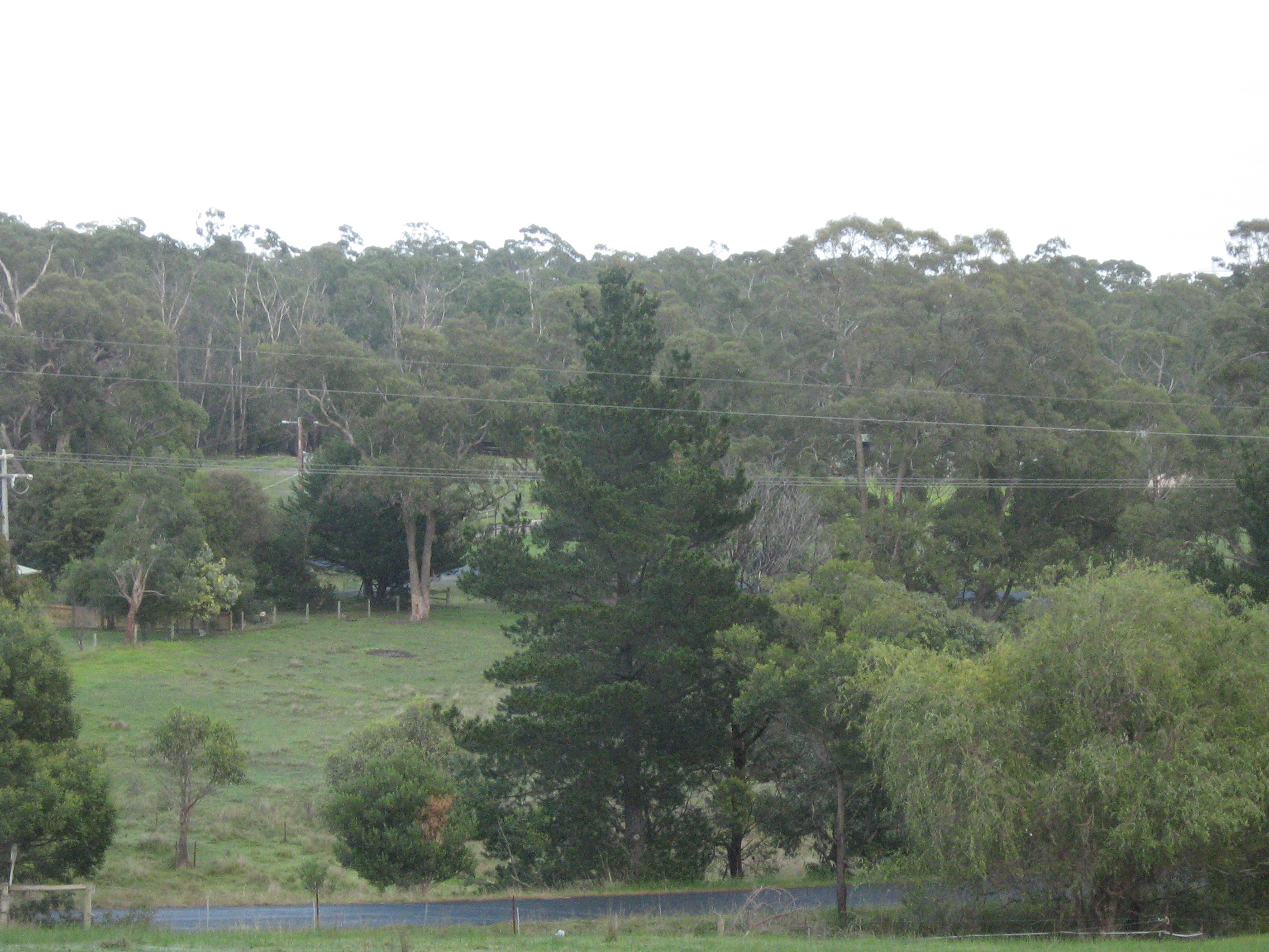 A general picture showing the landscape around Hazelwood North.